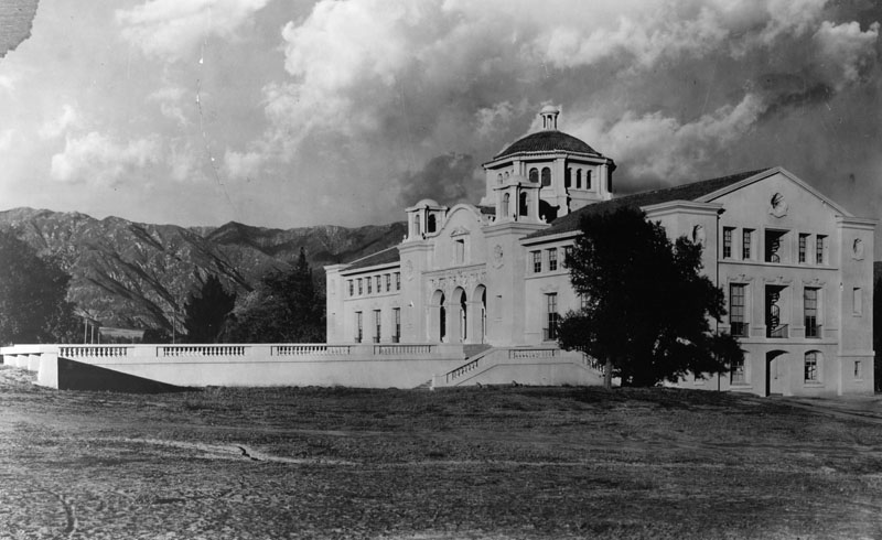 Throop Hall on the California Institute of Technology campus (c. 1912). Historical Notes Designed by Elmer Grey and Myron Hunt, Throop Hall, one of the original campus buildings, was completed in 1910. As a result of the 1971 Sylmar earthquake, the structure was damaged beyond repair and was later demolished.